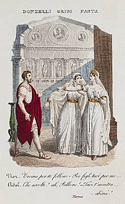 Norma-Bellini-Donzelli-Grisi-Pasta-original-cast